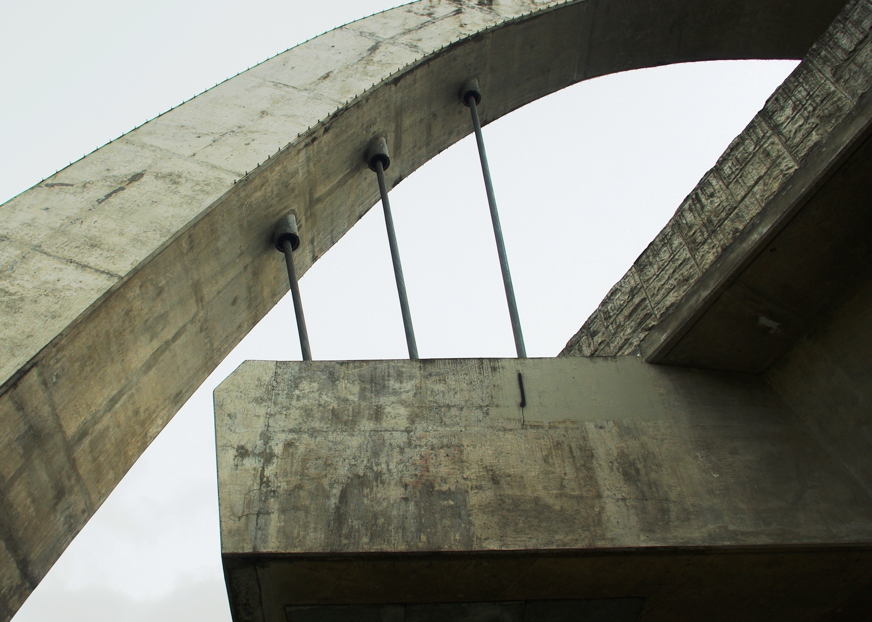 Main Street Bridge carrying MAX light rail in Hillsboro, Oregon, USA.